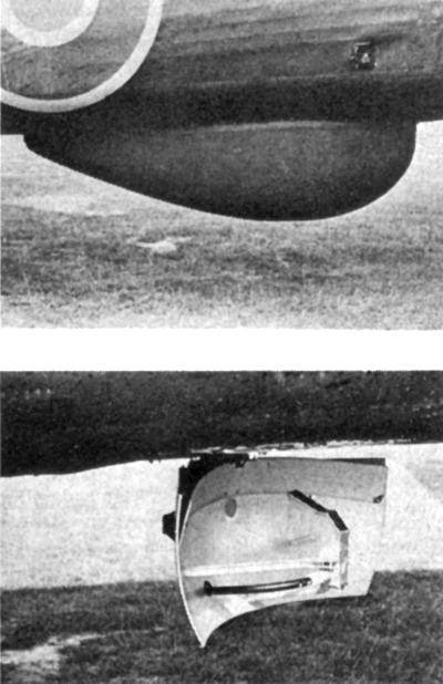 The H2S radome (top) and the enclosed, rotating, scanning aerial (bottom) on a Handley Page Halifax. Imperial War Museum? - picture scanned by me Ian Dunster 08:36, 22 September 2005 (UTC) from the; The Radar War article in the November 1978 issue of Aeroplane Monthly and uncredited.